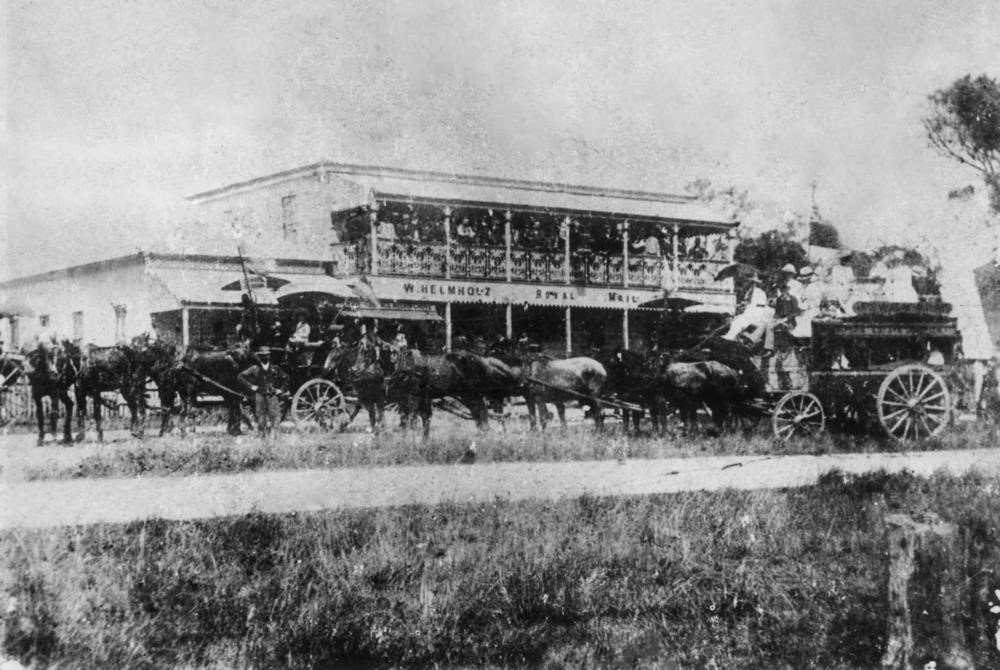 Royal Mail Hotel at Tingalpa, Brisbane, Queensland Australia. Photo taken in 1893